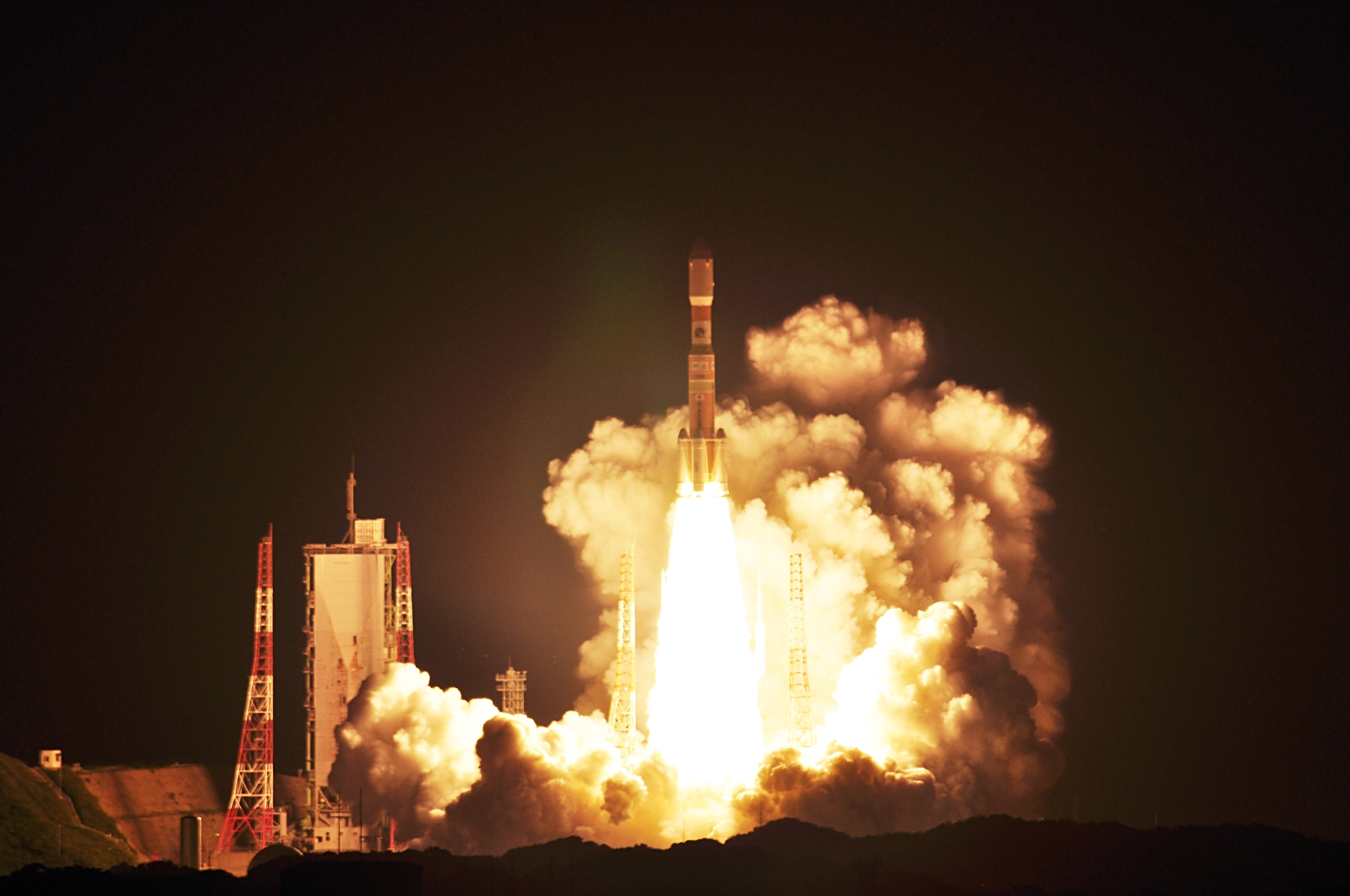 H-IIB Launch Vehicle Test Flight 1, launching H-II Transfer Vehicle (HTV) Demonstration Flight (HTV-1).